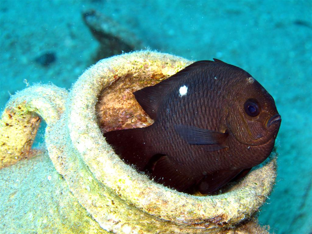 Three spot Damsel - Dascyllus trimaculatus; Egypt-Sinai-Dahab